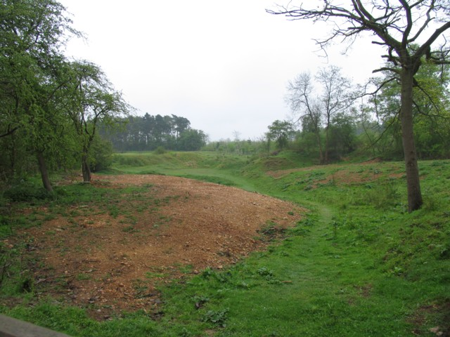 Bloody Oaks Quarry. This quarry was marked on maps nearly 200 years ago. The name Bloody Oaks was reputedly given to nearby woodland following the nearby Battle of Empingham, 1470, where the Yorkists were victorious and in the process slaughtered up to 10,000 Lancastrians in the woods.